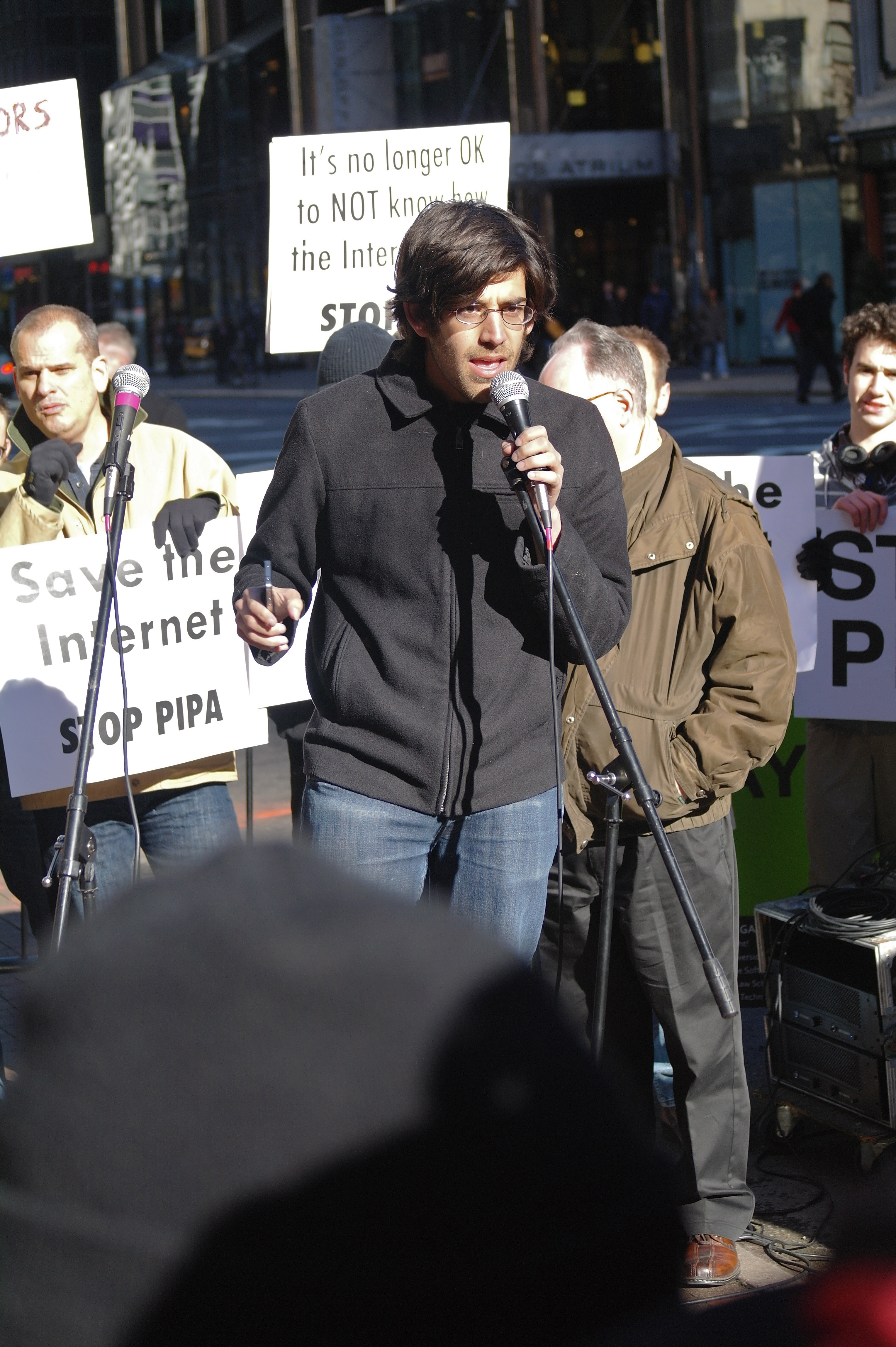 Aaron Swartz speaking at the New York Tech Meetup anti-PIPA rally. (Video of him speaking, starts at 37:18